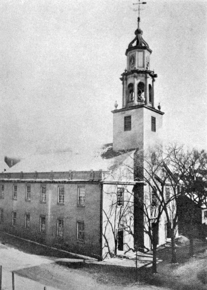 The 1795 Presbyterian church later used by the First Congregational Church of Albany until 1866; since demolished.